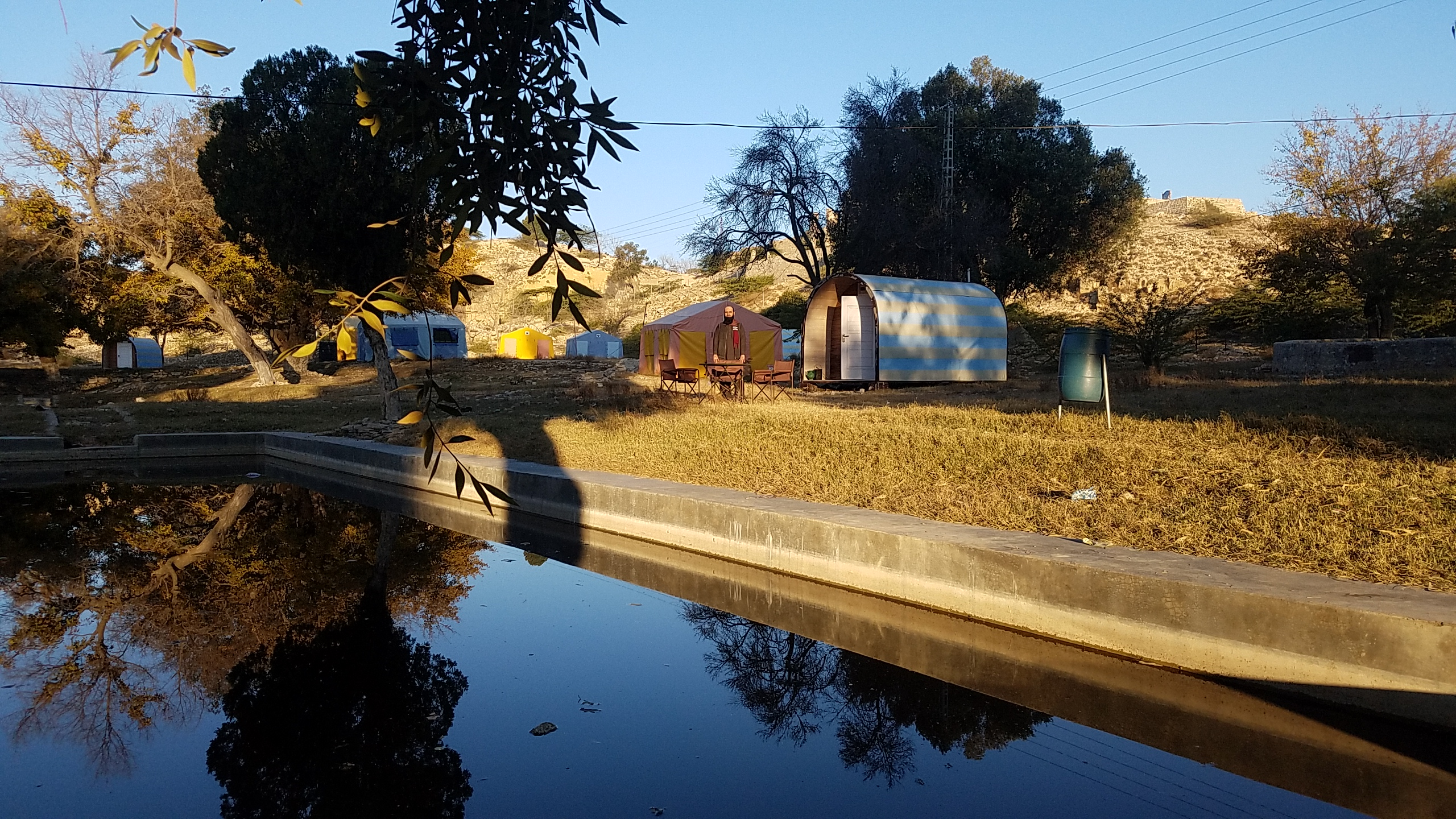 Recently constructed tourist huts at the village center